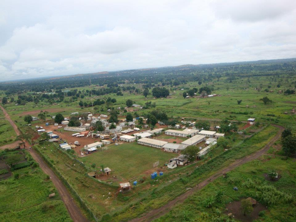 Ariel View of UN Camp in Maridi - South Sudan.